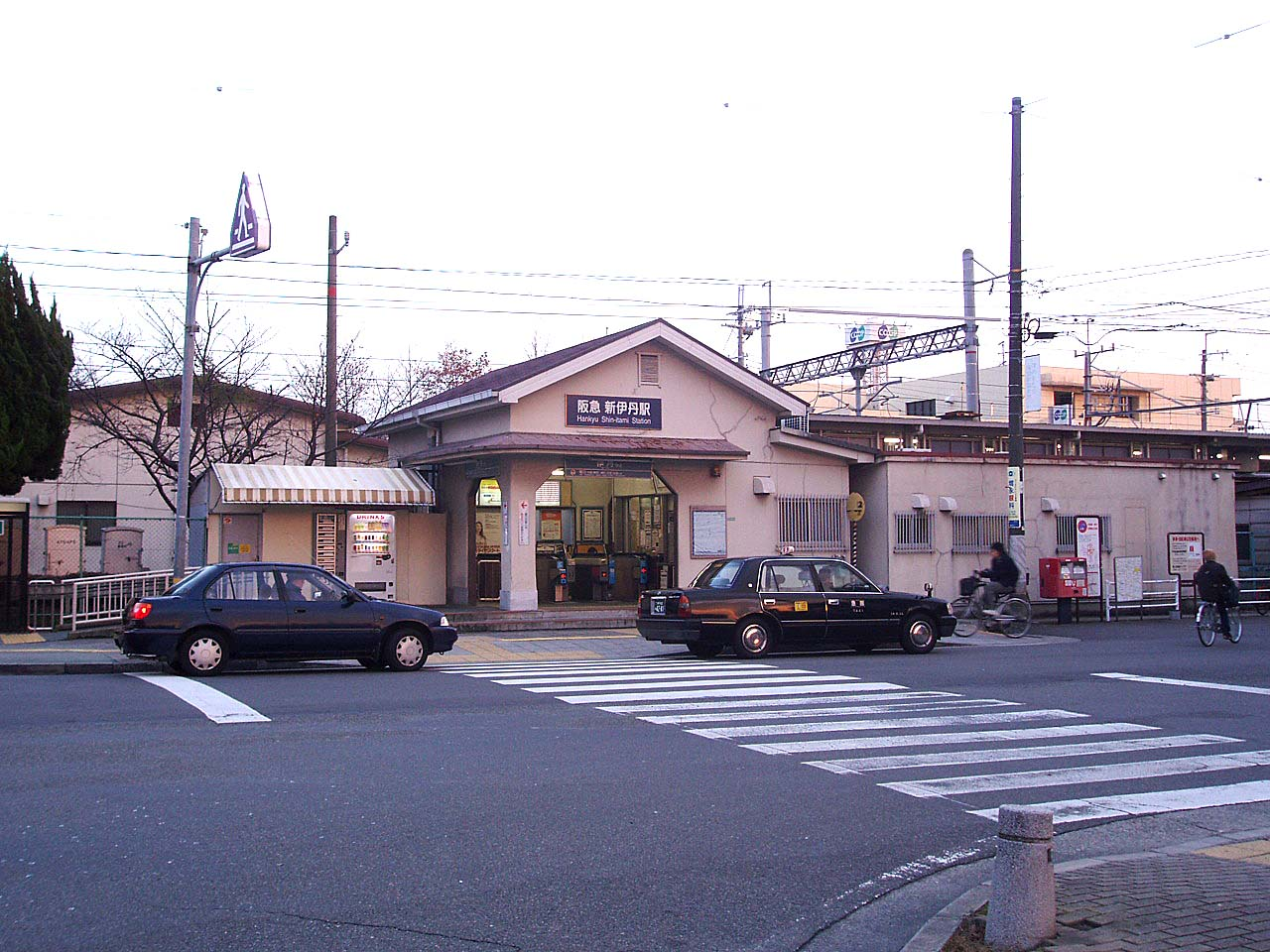 Hankyu Railway Itami Line Shin-Itami Station Building West Gate阪急電鉄 伊丹線 新伊丹駅 駅建物 西出口